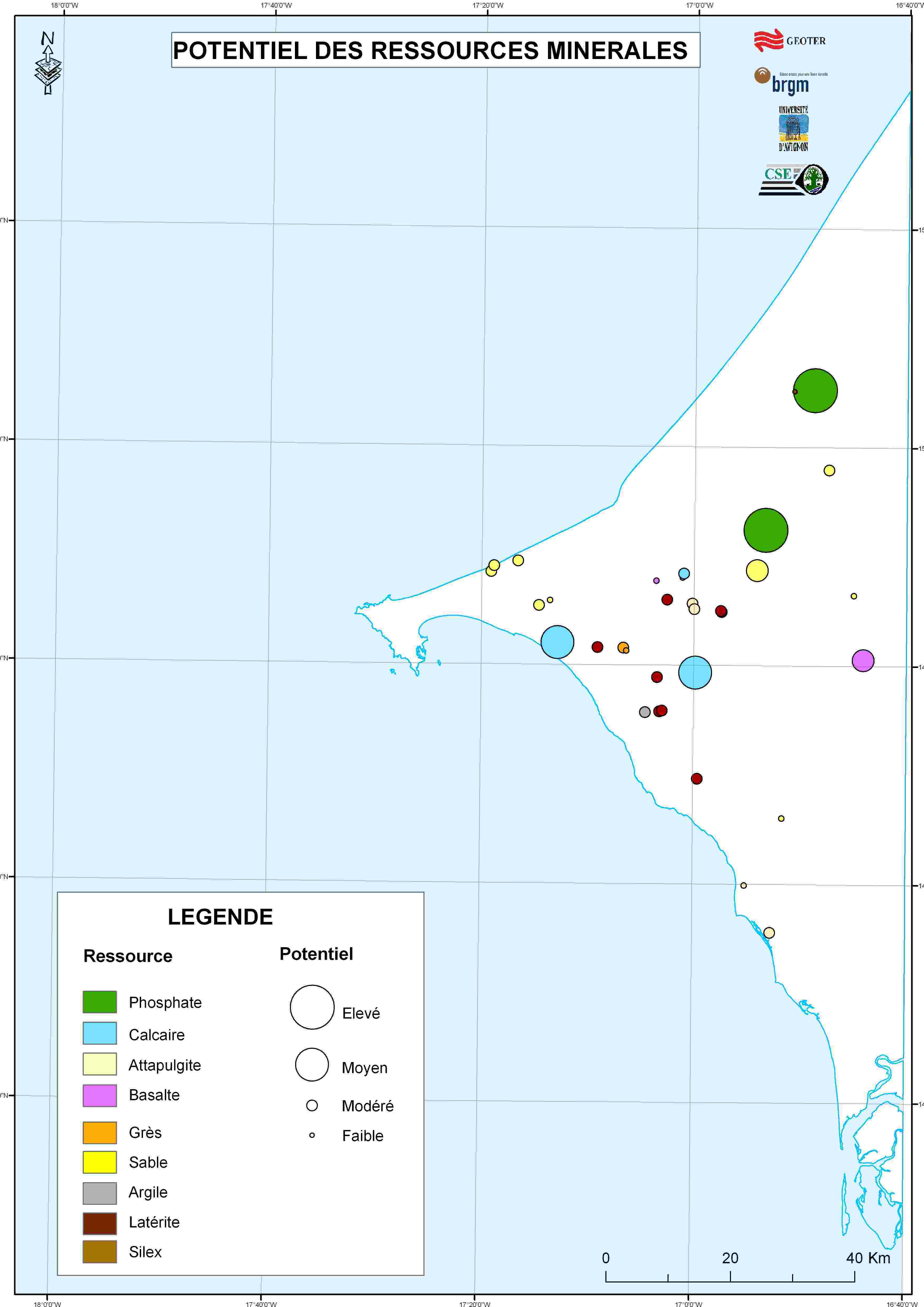 Map of mineral resources